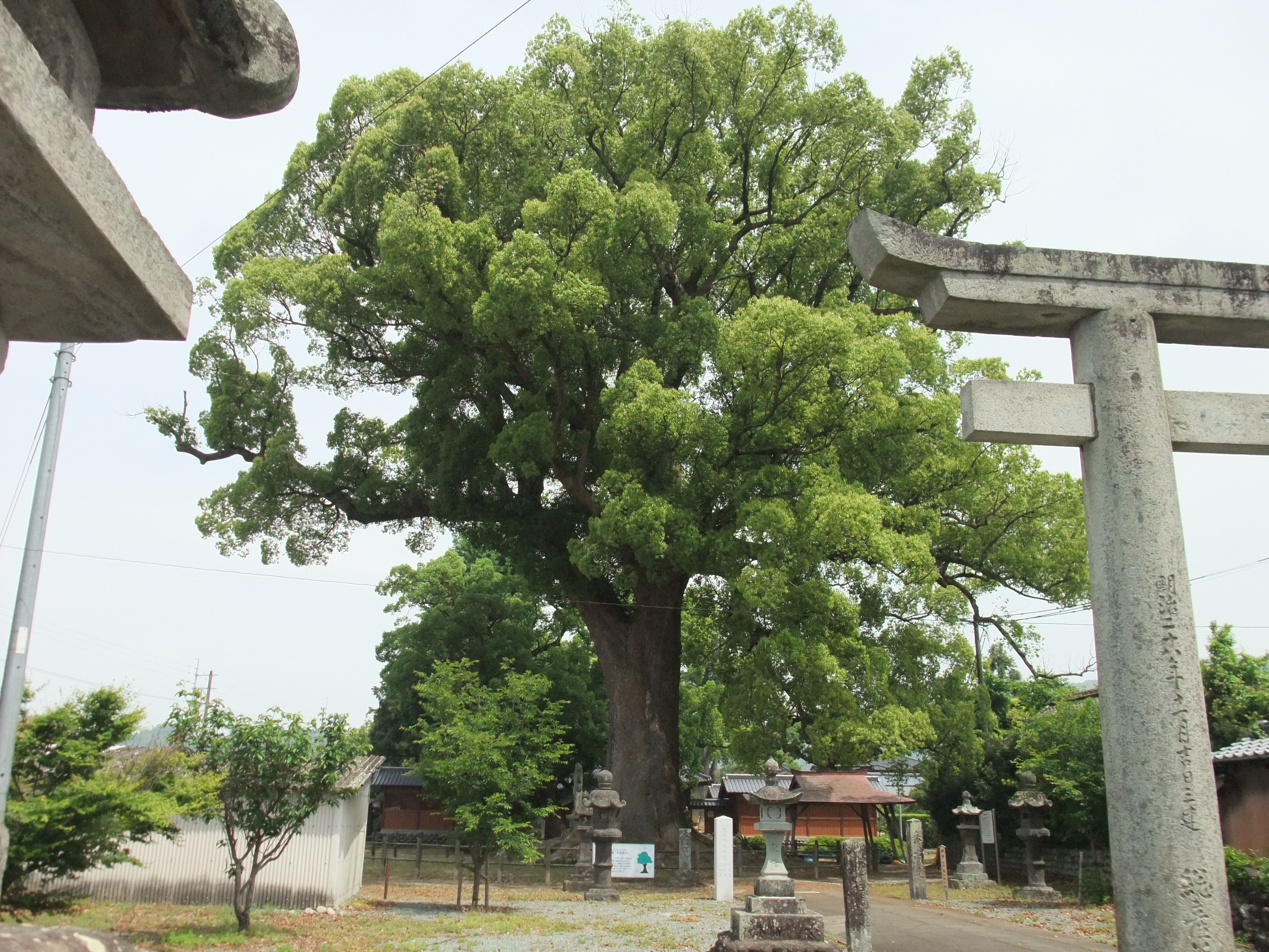 Tsue-jinja no Kusu (Cinnamomum camphora tree of Tsue-jinja). Yame city, Fukuoka pref,.